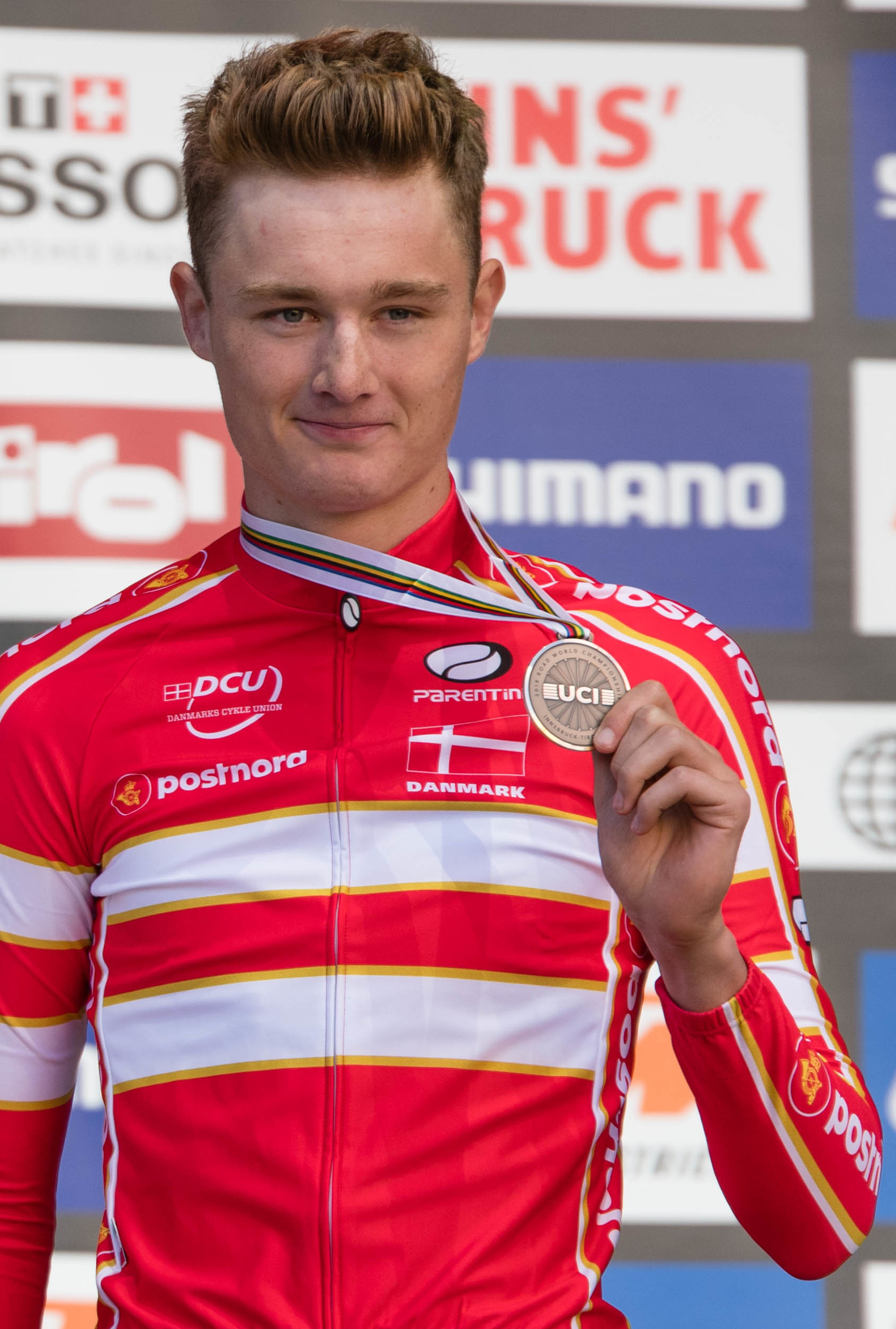 2018 UCI Road World Championships Innsbruck/Tirol Men under 23 Individual Time Trial. Picture shows: Award Ceremony Men under 23 Individual Time Trial with Brent van Moer (BEL), Mikkel Bjreg (DEN) and Mathias Norsgaard Jorgensen (DEN)